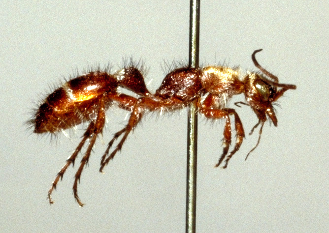 Typhoctes peculiaris mirabilis female (New Mexico) Bradynobaenidae